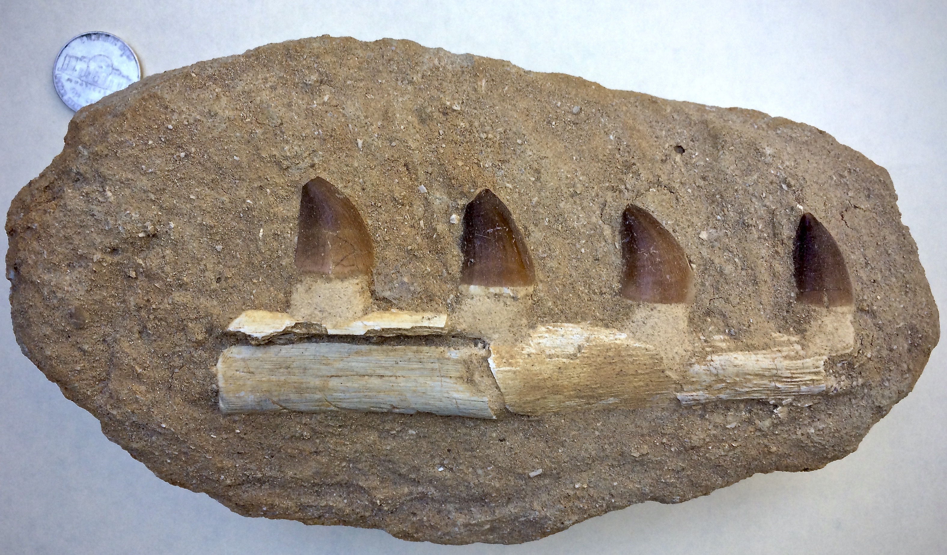 Recovered from a phosphate mine in western Morocco, probably near Khouribga. I bought two of these at the Tucson show around 20 years ago. If someone knows the species, please post a note! US 5c. coin for scale. Mine might be a juvenile M. beaugei (?). Teeth are in good condition and bone less so, as is usual for specimens from here, Teeth curve back towards the gullet, to hold the prey, and the teeth interlace on the full jaw.